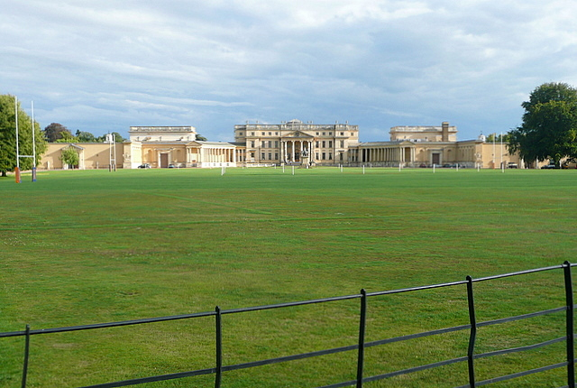 Stowe House, north facade. The view from the former Roman Road, used to access the car park to the grounds. This looks across one of Stowe School's cricket pitches, used by Northamptonshire for some of its matches. The core of the house was rebuilt around 1683 and was gradually expanded, with this view virtually unchanged since the 1750s.